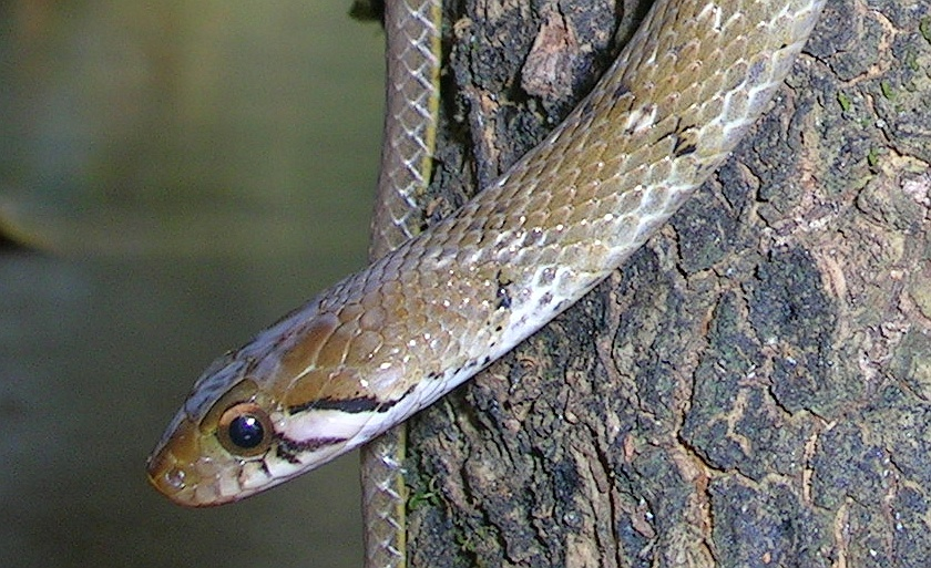 Amphiesma beddomei from Wayanad.